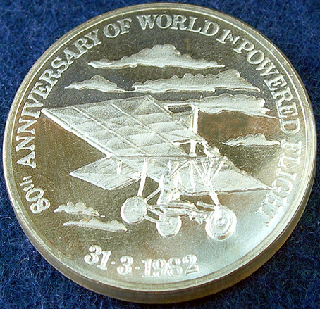 Medal struck to celebrate 80 year anniversary of world's first powered flight by Richard Pearse on 31 March 1902